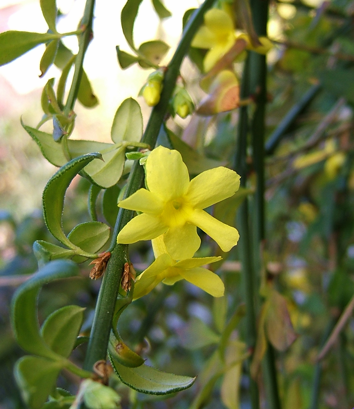 Winter Jasmine